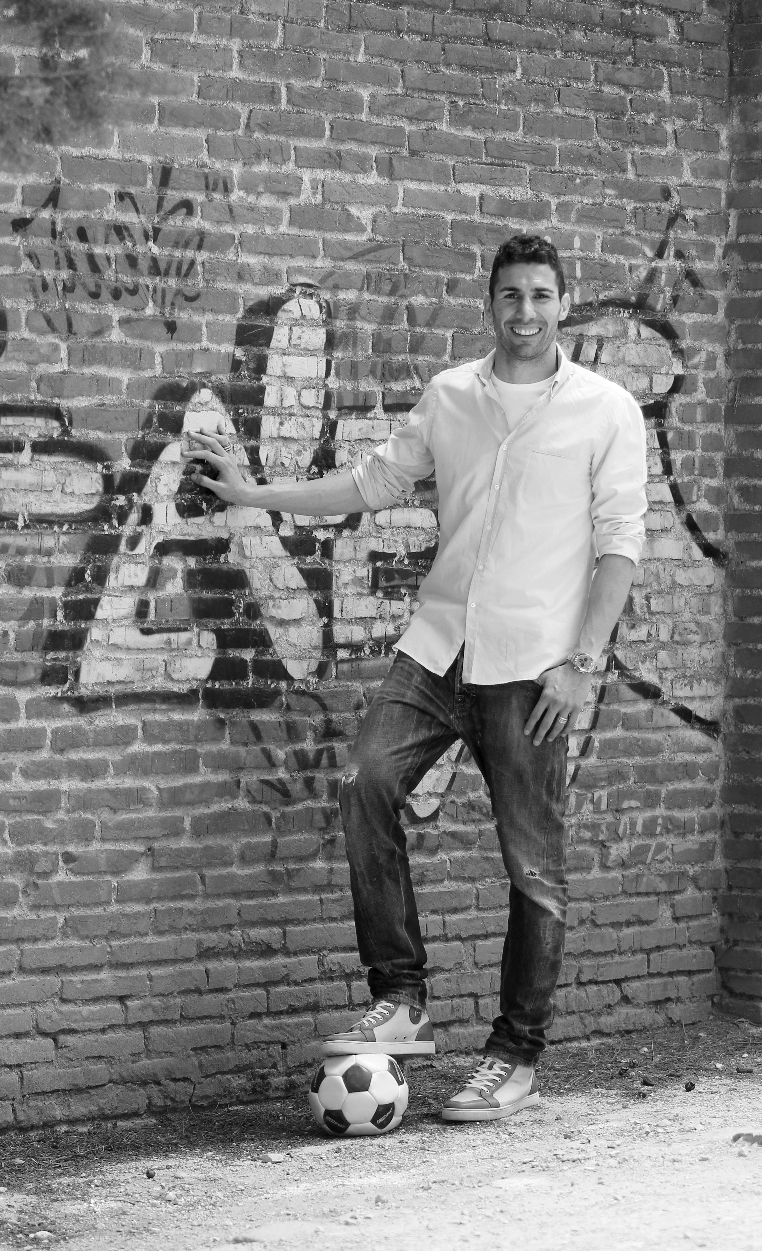 Carlos Cuellar